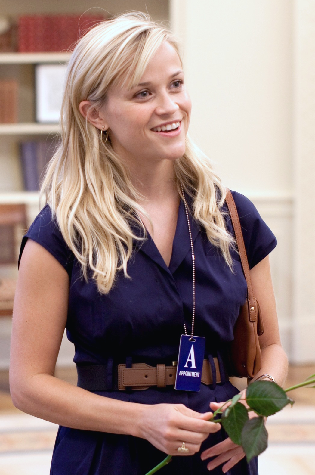 Actress Reese Witherspoon in the Oval Office on June 25, 2009.